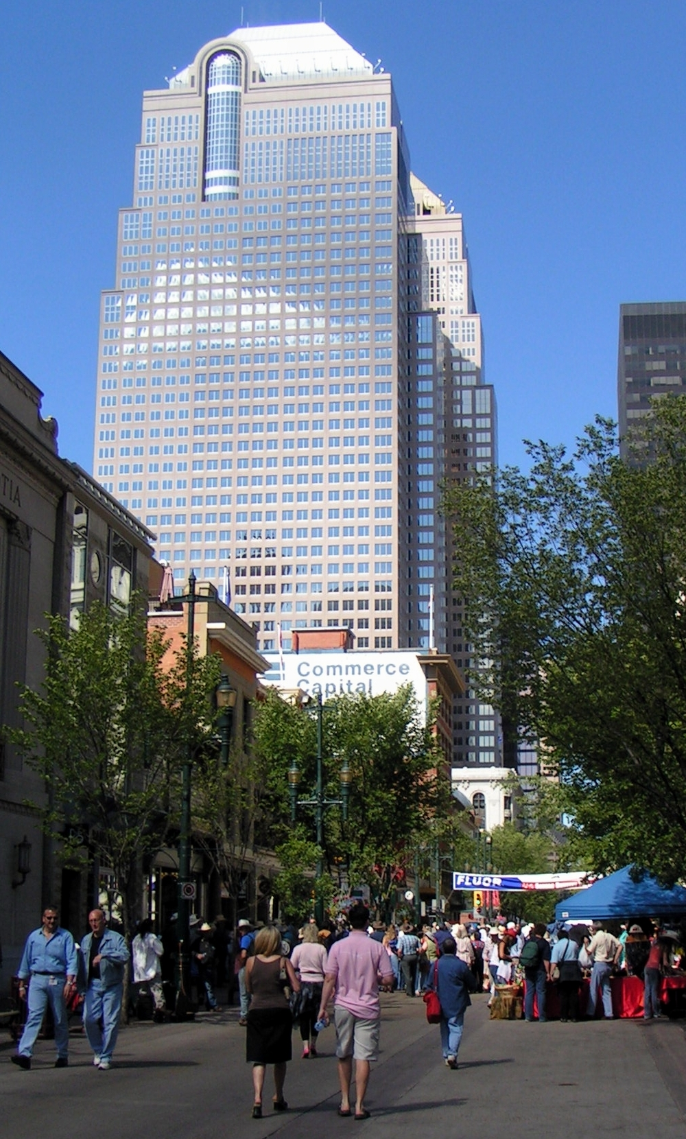 Bankers Hall East building, Calgary, Alberta